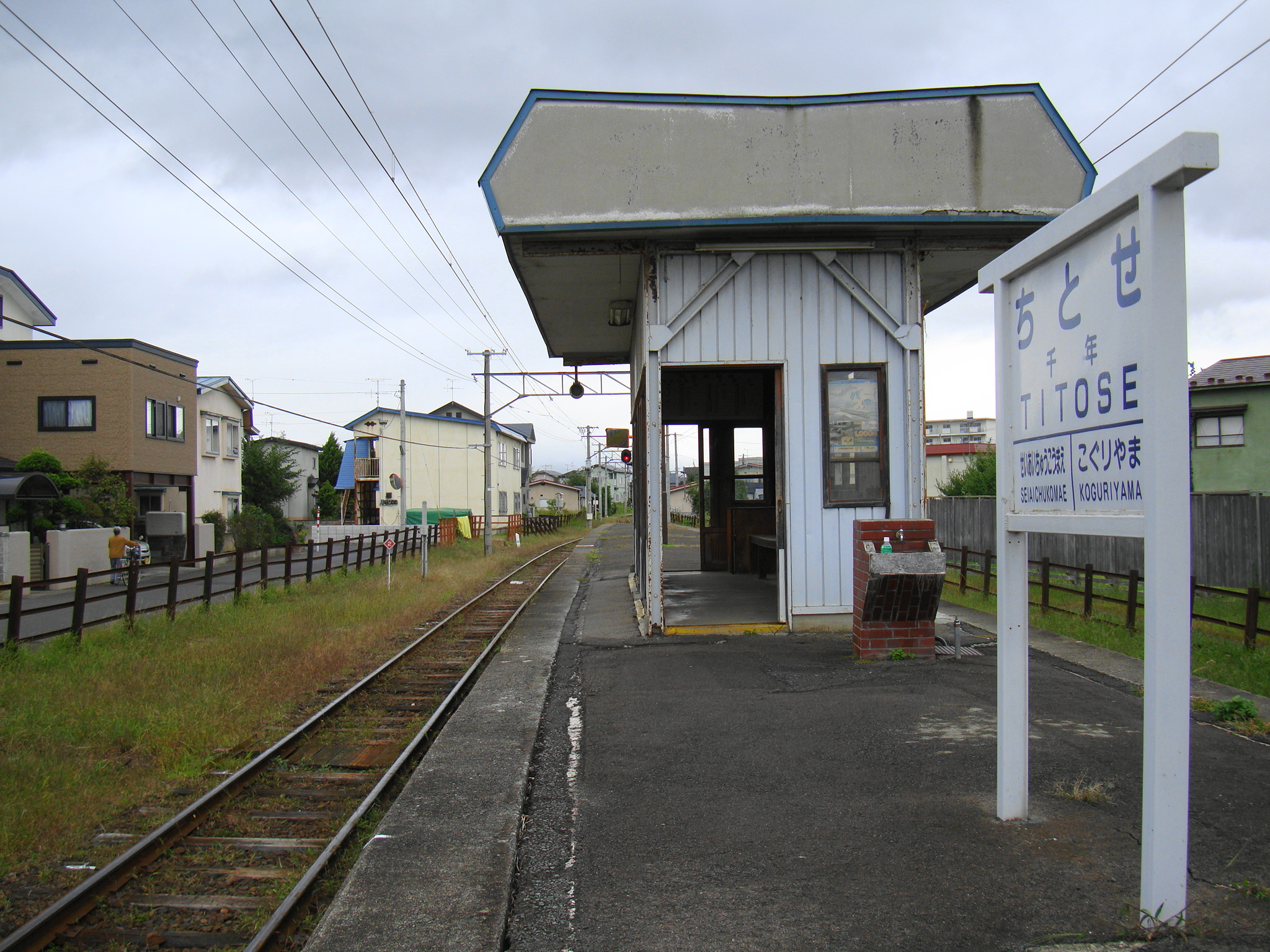 Chitose Station (Aomori)